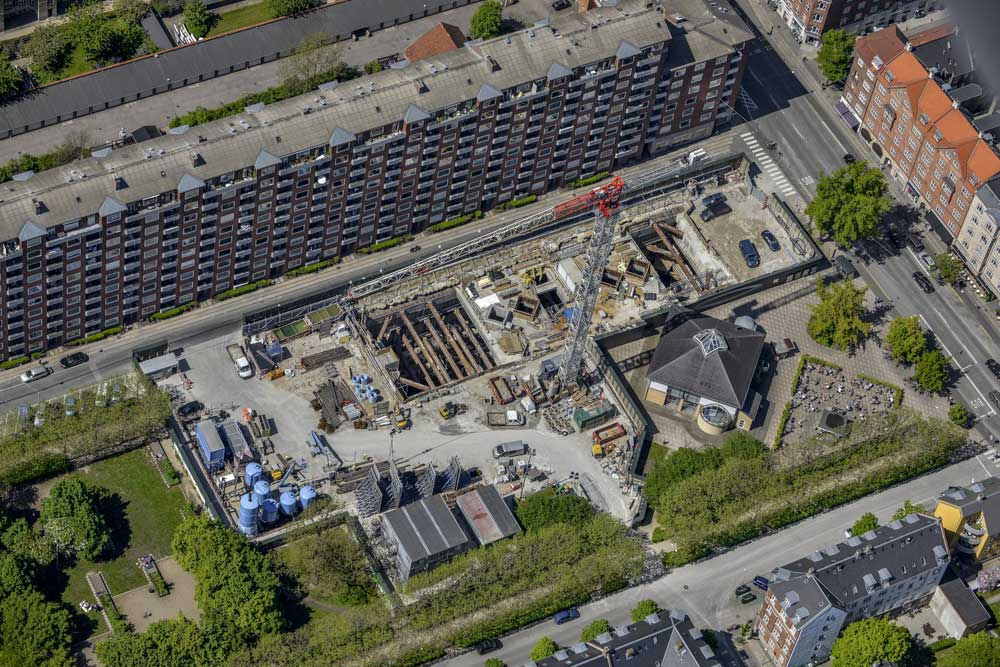 Air photo of the City Circle Line being built, part of the Copenhagen Metro. I got the following permission to use these images from kjeld madsen on 2014-10-07: Dragør Luftfoto ApS frigiver hermed billederne i galleriet under licensen Creative Commons Attribution ShareAlike 3.0 license.